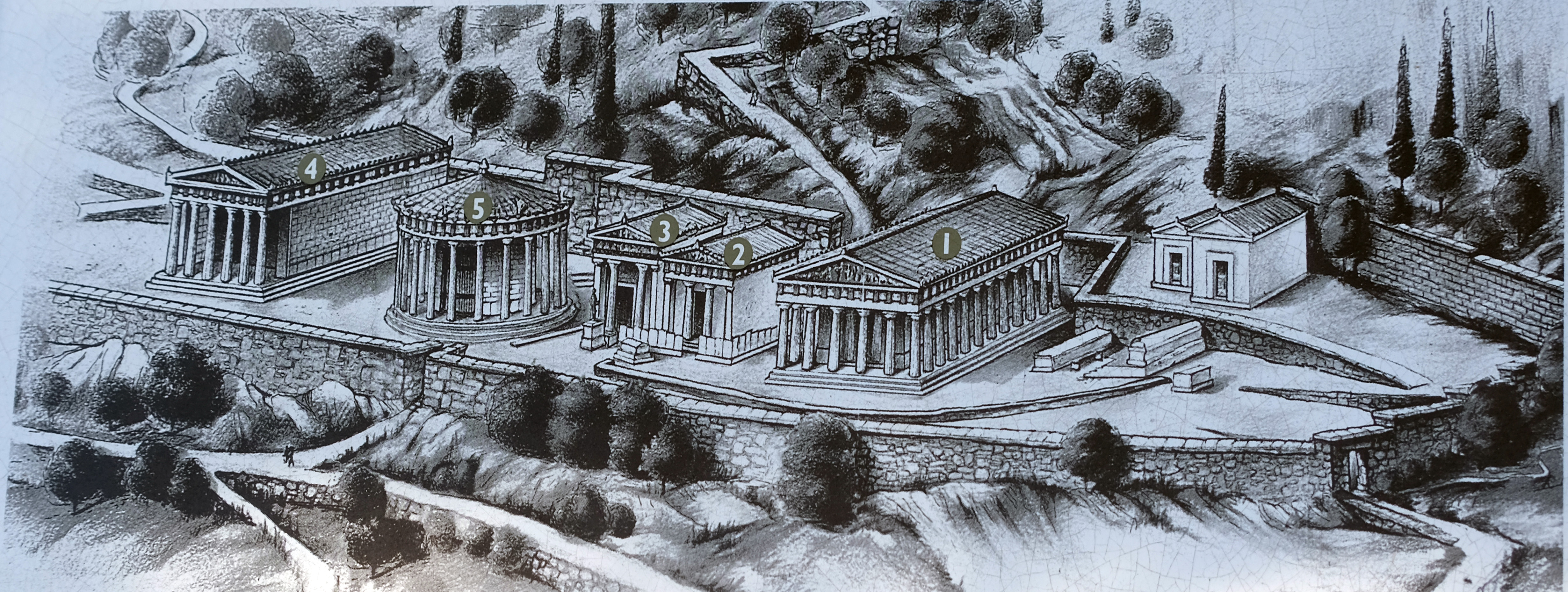 Marmaria reconstrunction